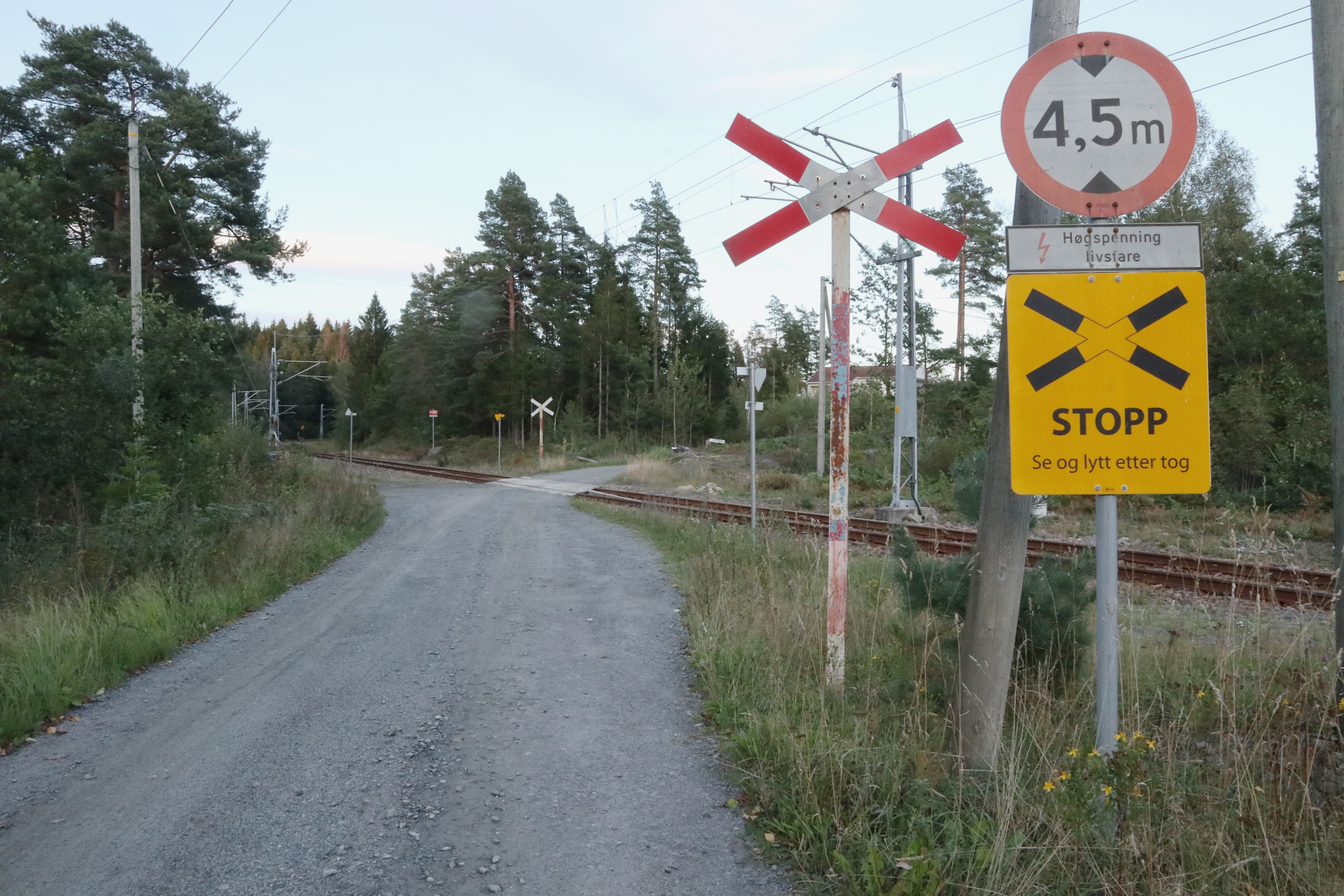 Railway crossing Road